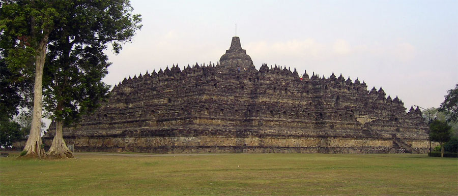 Borobudur from a distance